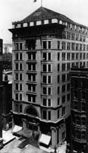 Steinway Hall building, Chicago